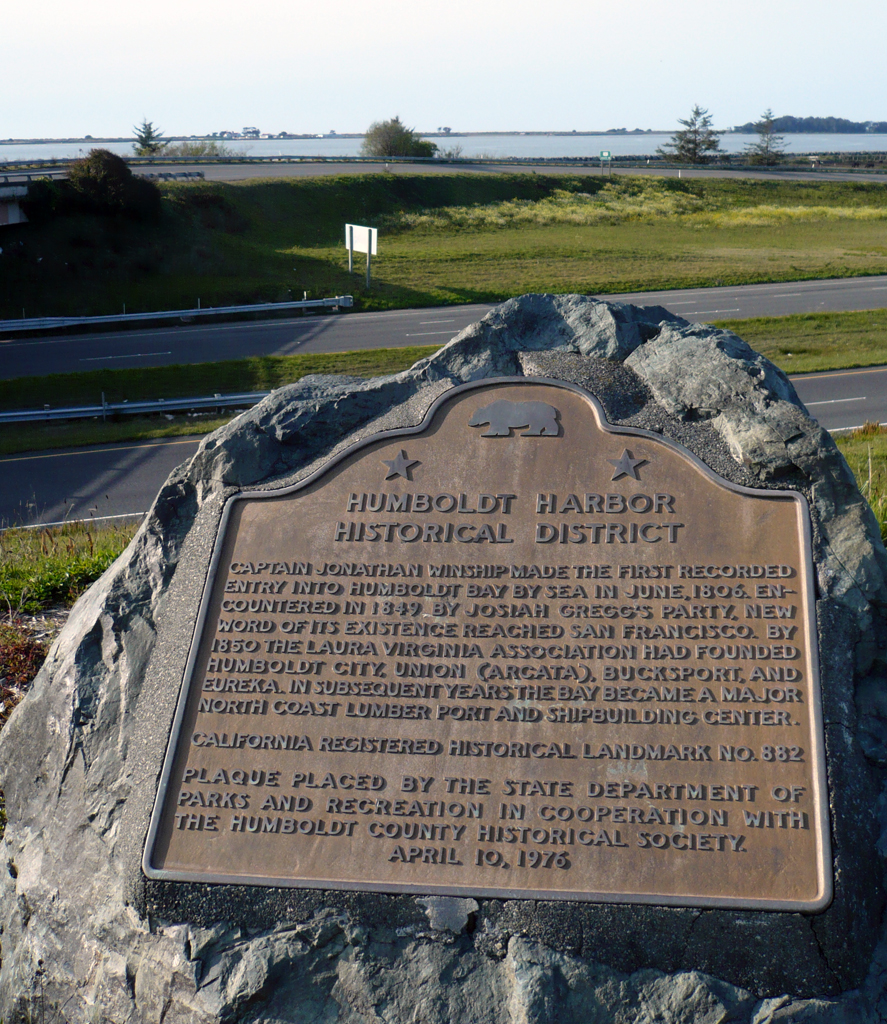 California Registered Historical Landmark Plaque reads: "Humboldt Harbor Historical District - Captain Jonathan Winship made the first recorded entry into Humboldt Bay by sea in June, 1806, encountered in 1849 by Josiah Gregg's party, new word of its existence reached San Francisco. By 1850 the Laura Virginia Association had founded Humboldt City, Union (Arcata), Bucksport, and Eureka. In subsequent years the Bay became a major North Coast lumber port and shipbuilding center. California Registered Historical Landmark No. 882. Plaque placed by the State Departemtn of Parks and Recreation in cooperation with the Humboldt County Historical Society, April 10, 1976. "